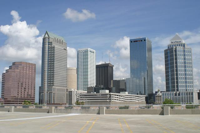 The Tampa Skyline as seen from atop the parking garage next to the St. Pete Times Forum. Photo by Ronnie Boone, June 9, 2004.